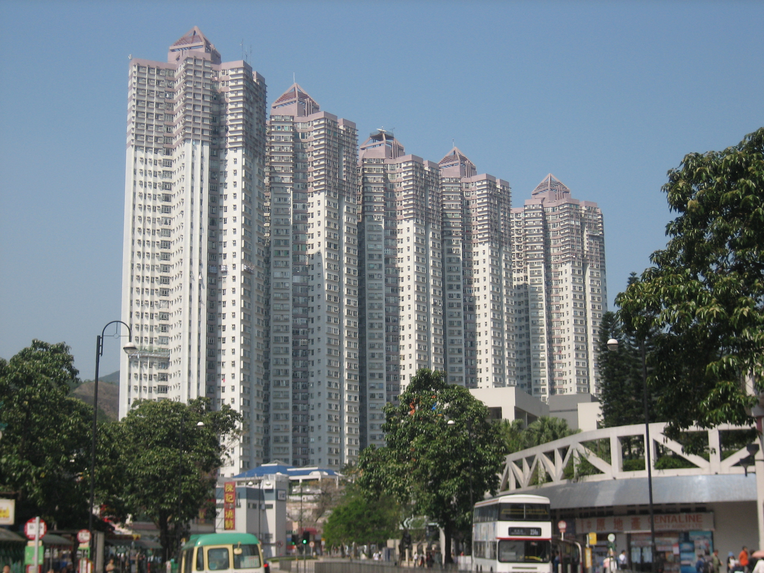 Rhine Garden 中文（香港）: 海韻花園